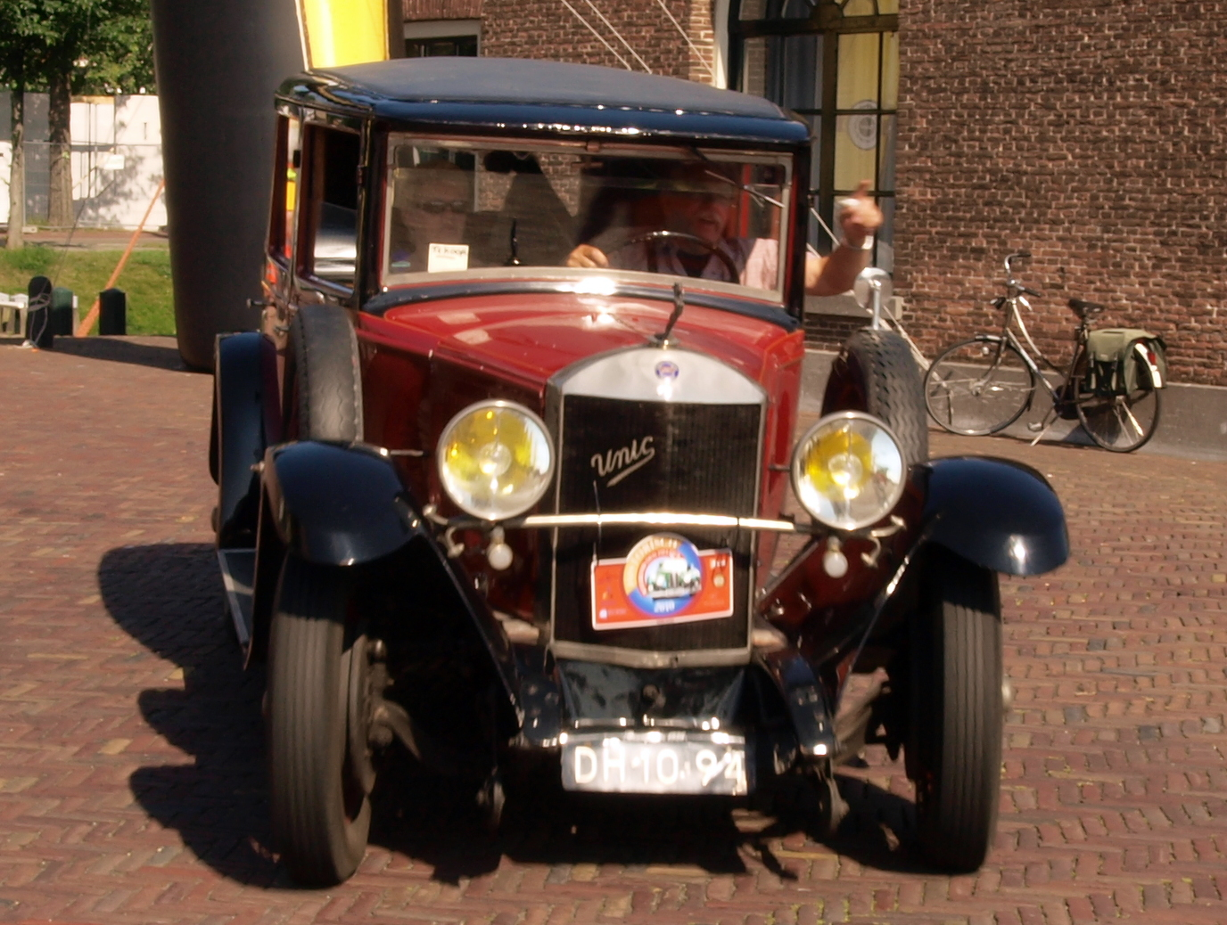 Photographed at Den Helder, The Netherlands. OLYMPUS DIGITAL CAMERA